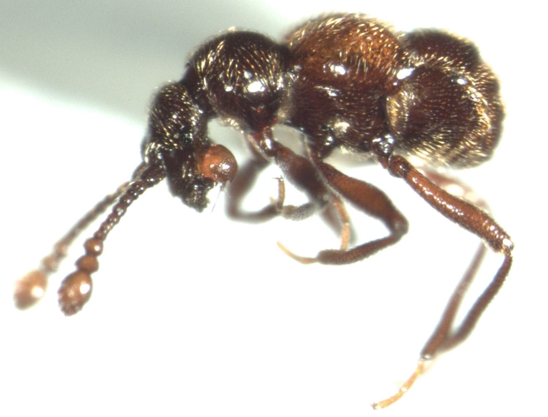 adult Zeatyrus lawsoni